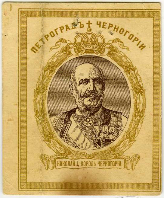 Russia: the Help to victims of the First World War. Petrograd Montenegro